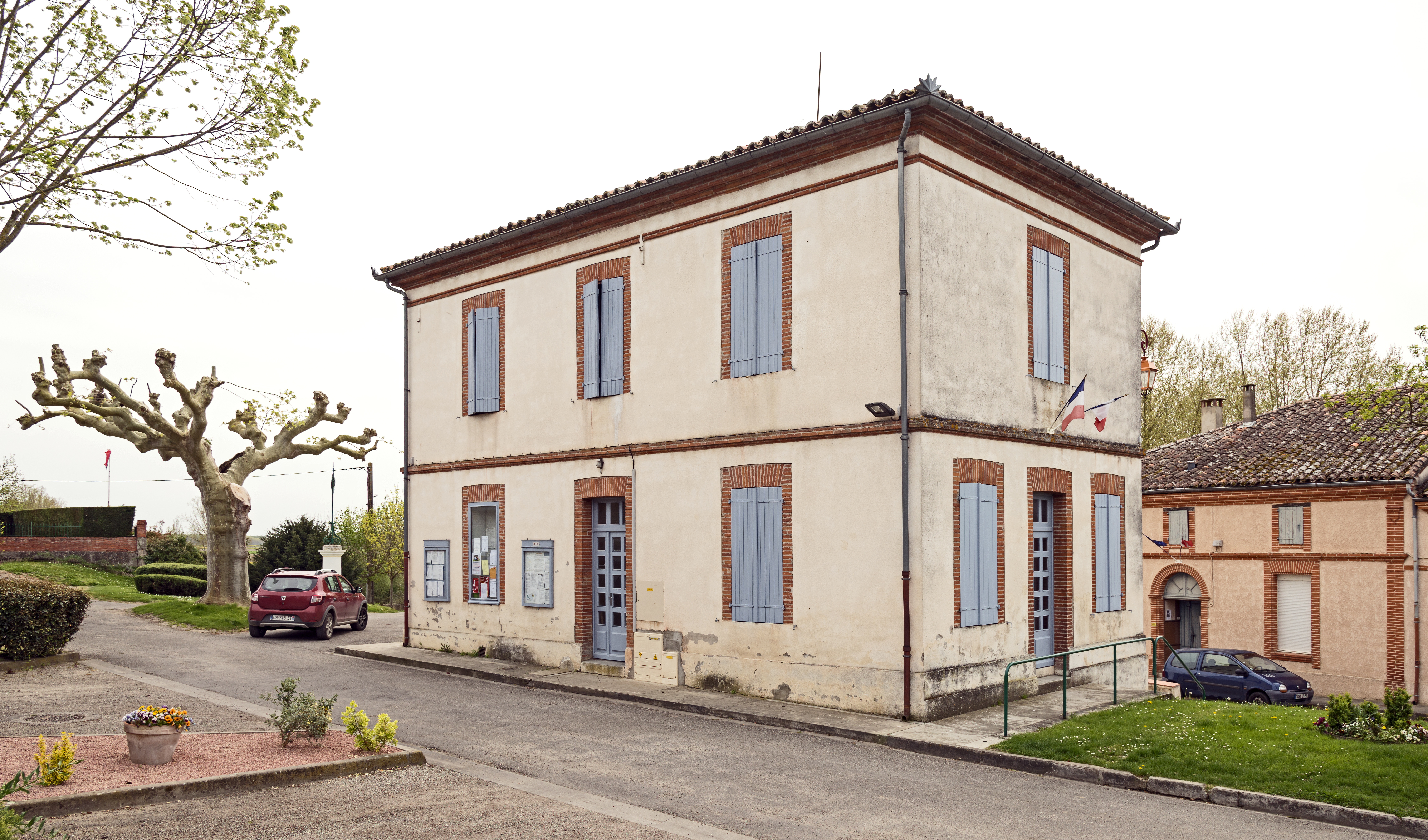 Facade of Town hall Monbéqui, Tarn-et-Garonne, France.